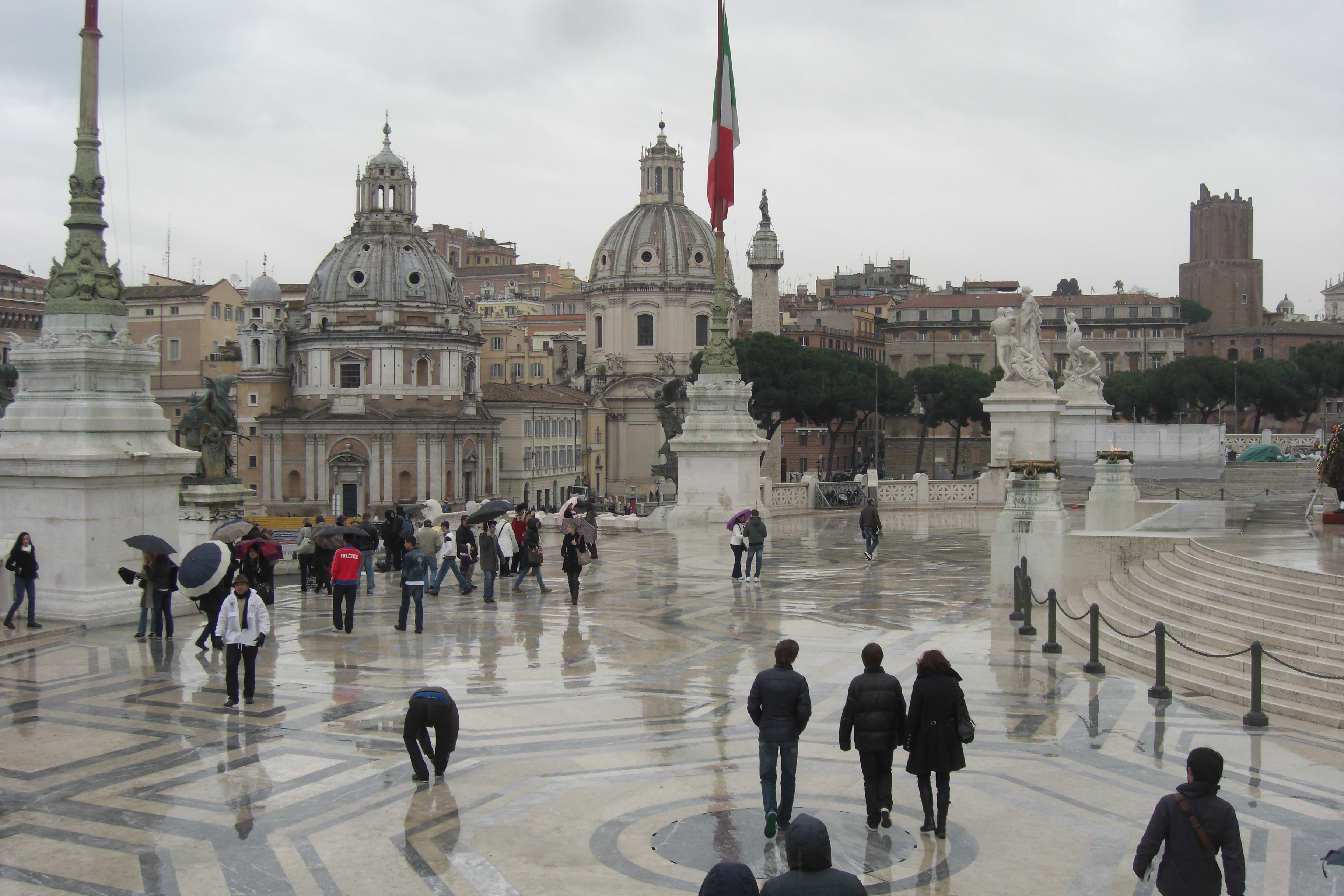 The Altare della Patria, also known as the "Monumento Nazionale a Vittorio Emanuele II" ("National Monument to Victor Emmanuel II") or Il Vittoriano, (Rome)